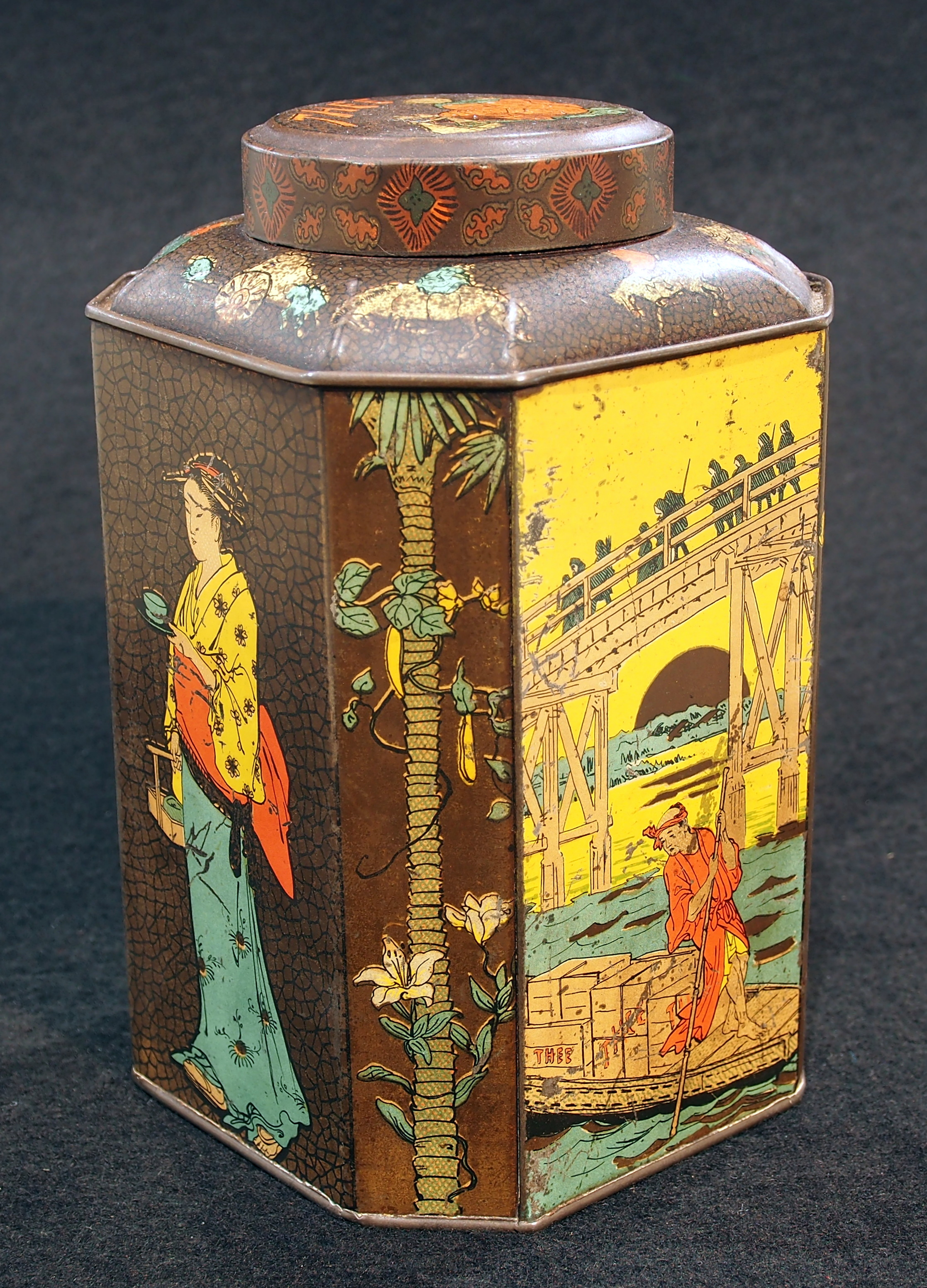 Very old packaging of a product that is not produced and not sold any more.